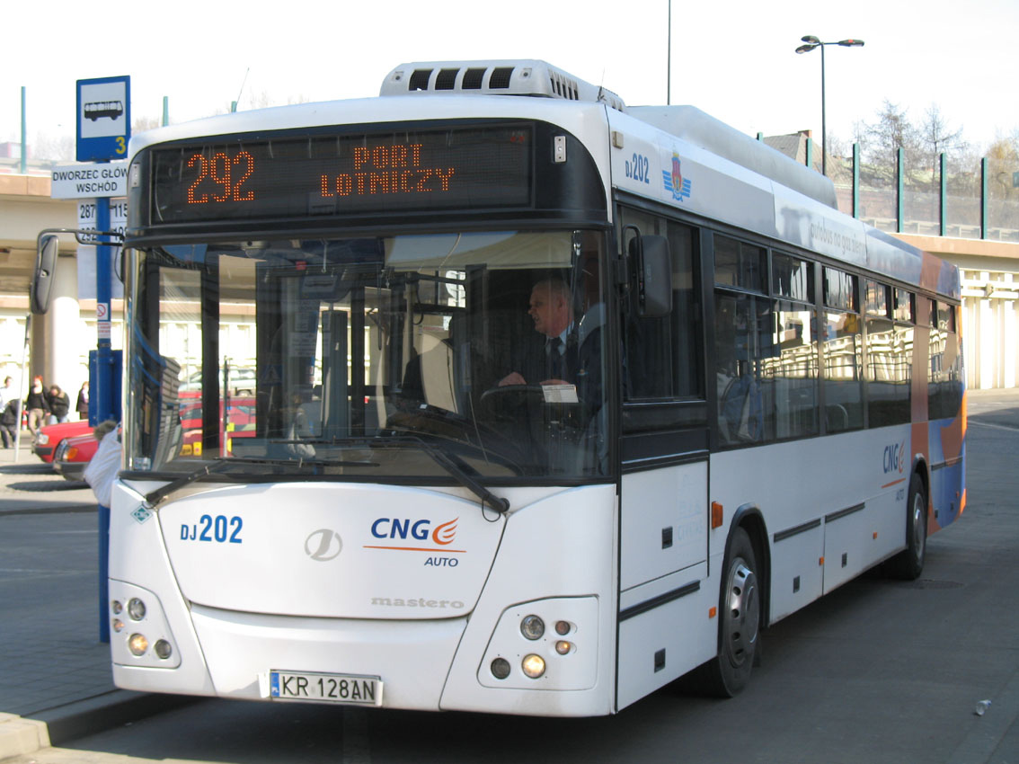 Jelcz M121M/4 Mastero CNG bus (#DJ202) in Kraków, Poland. Built 2006, MPK Kraków company. (Invalid name image)